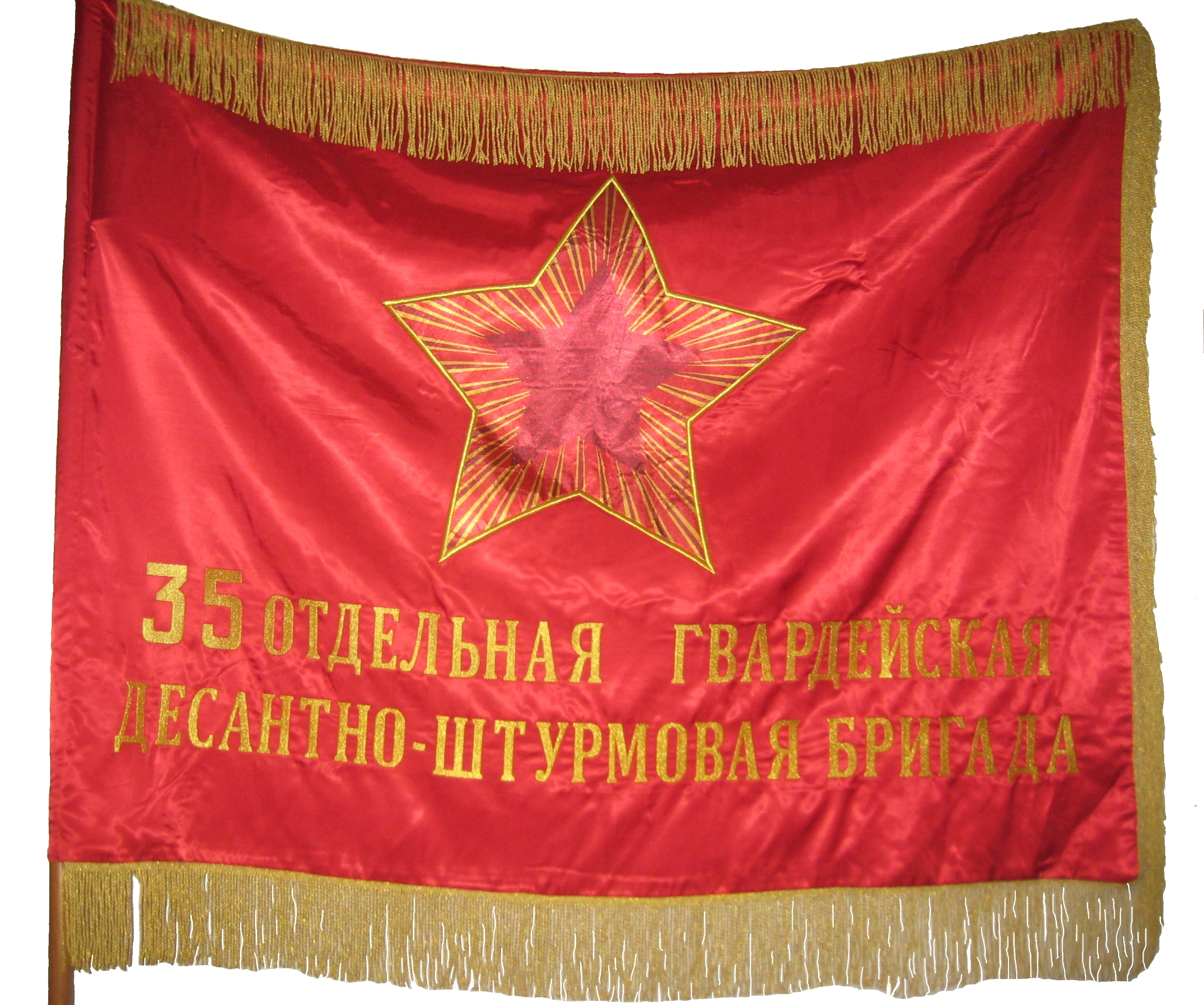 Battle flag of the 35th Separate Guards Air Assault Brigade